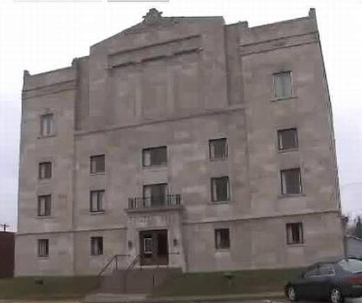 Outer view of the Masonic Lodge, Kirksville, Missouri. The building is listed on the National Register of Historic Places.